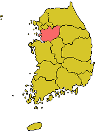 Diocese of Suwon